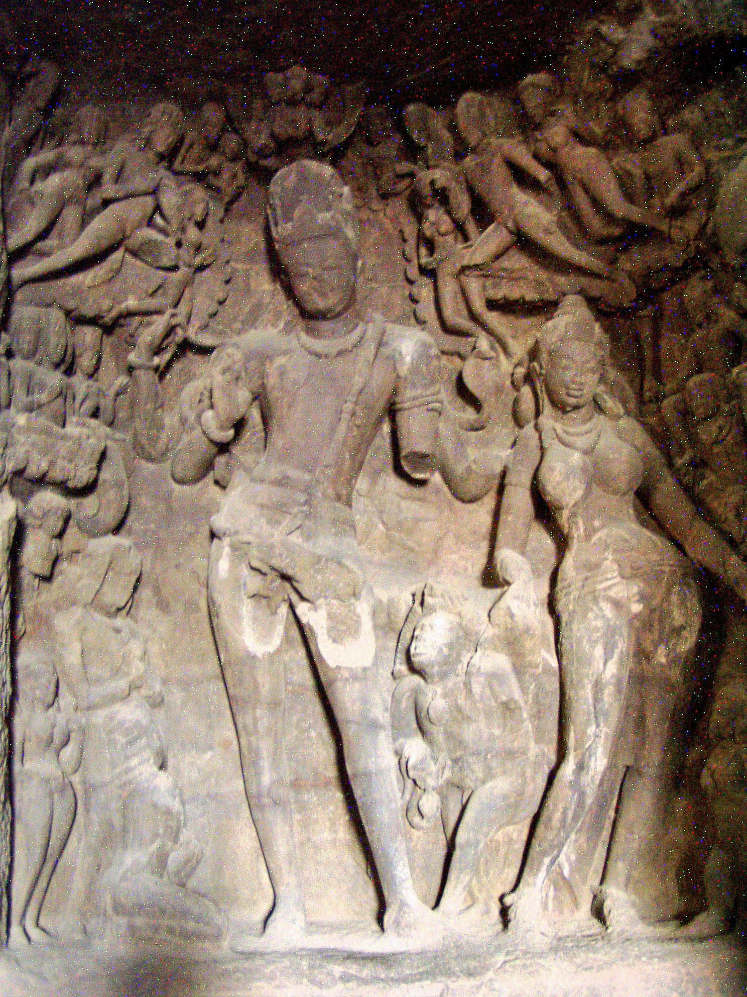 Lord Siva is taking Ganga the heavenly river on his head before it falls down to earth. This form of Siva is known as Gangadhara. Parvati, his consort is shown beside him, and River Ganga is shown as a three headed goddess above his crown. This panel is found in the Elephanta Caves to the left of Mahesamurti.